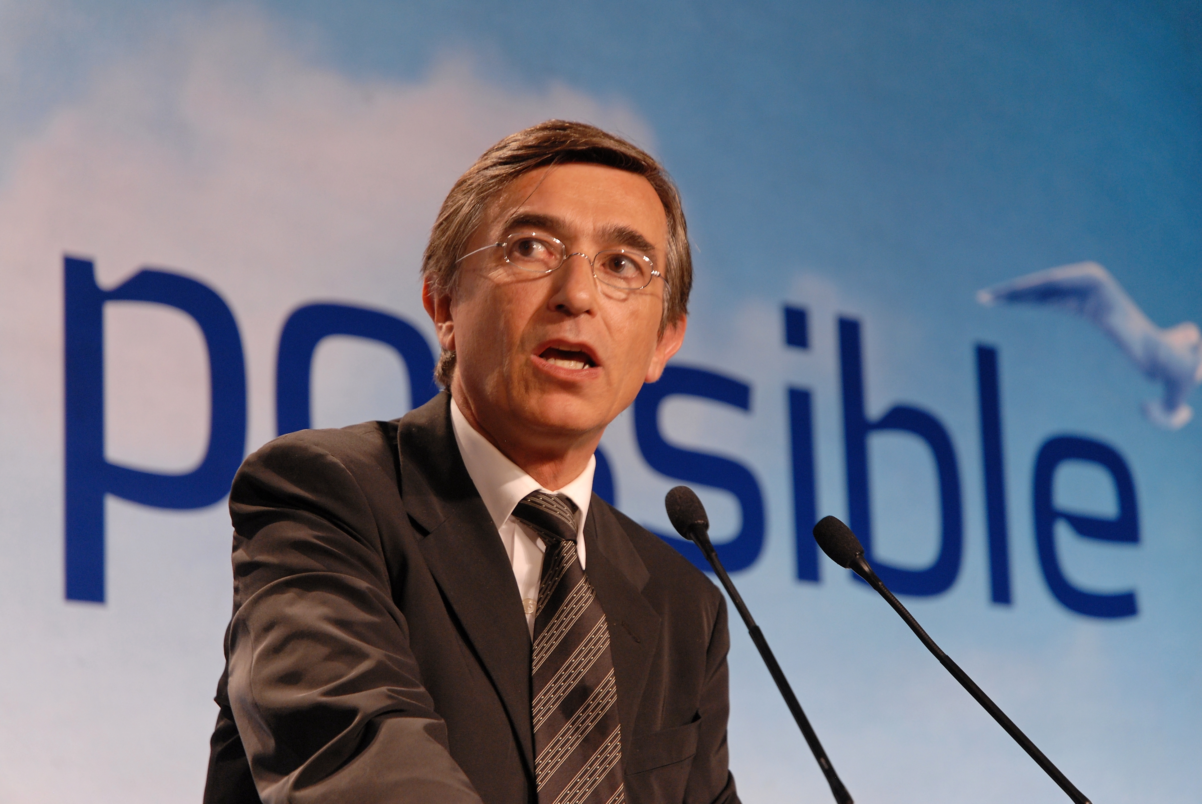 Philippe Douste-Blazy, French politician welcoming Nicolas Sarkozy coming for his meeting in Toulouse on April, 12th 2007, during the 2007 presidential election campaign).